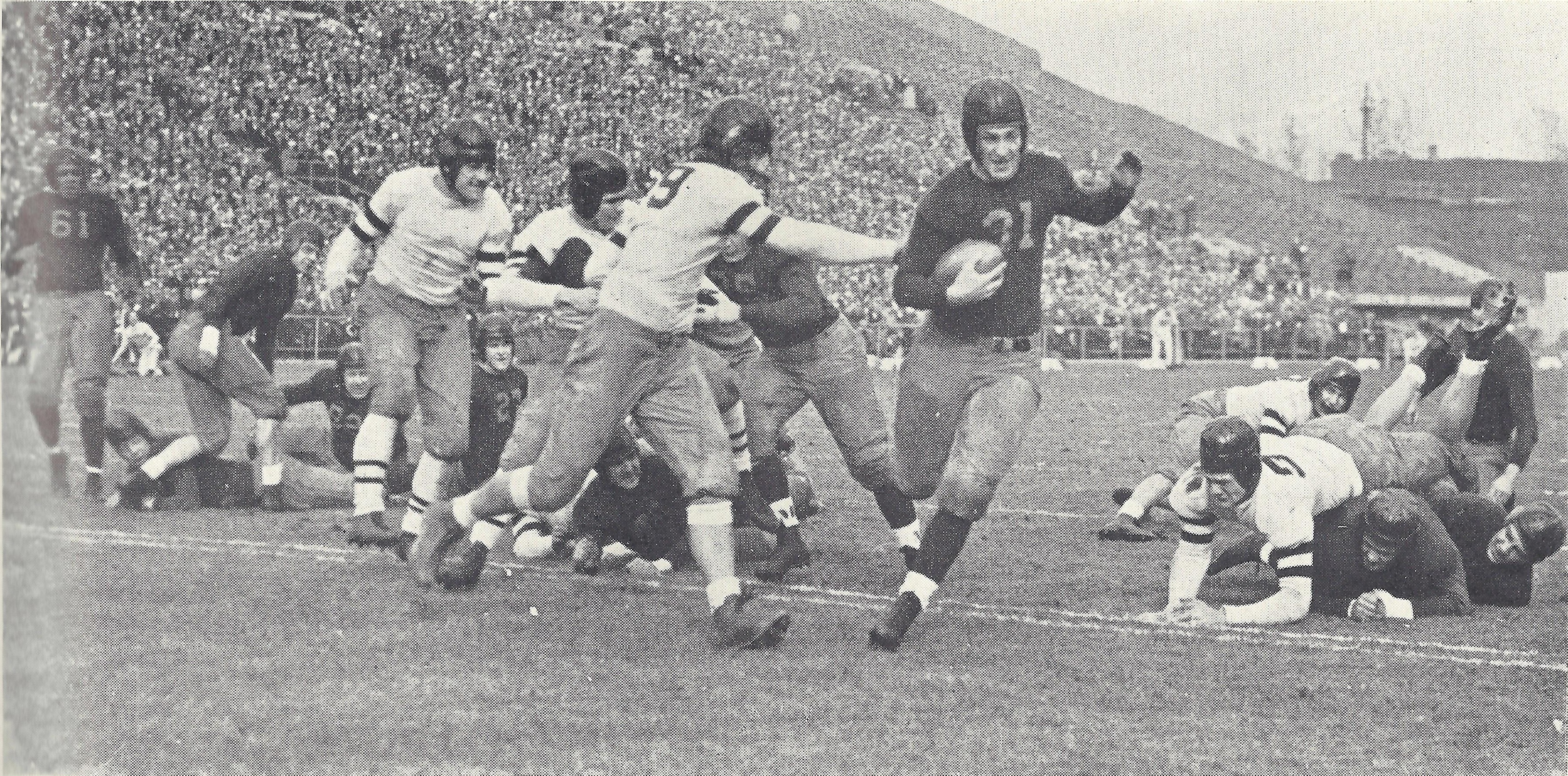 Photograph of Herman Everhardus, left halfback for the 1933 Michigan Wolverines football team, running for a touchdown against Chicago This work is in the public domain because it was published in the United States between 1925 and 1963 and although there may or may not have been a copyright notice, the copyright was not renewed. Unless its author has been dead for the required period, it is copyrighted in the countries or areas that do not apply the rule of the shorter term for US works, such as Canada (50 pma), Mainland China (50 pma, not Hong Kong or Macao), Germany (70 pma), Mexico (100 pma), Switzerland (70 pma), and other countries with individual treaties. See Commons:Hirtle chart for further explanation. This work is in the public domain in the United States because it was published in the United States between 1925 and 1977, inclusive, without a copyright notice. See Commons:Hirtle chart for further explanation. Note that it may still be copyrighted in jurisdictions that do not apply the rule of the shorter term for US works (depending on the date of the author's death), such as Canada (50 p.m.a.), Mainland China (50 p.m.a., not Hong Kong or Macao), Germany (70 p.m.a.), Mexico (100 p.m.a.), Switzerland (70 p.m.a.), and other countries with individual treaties.